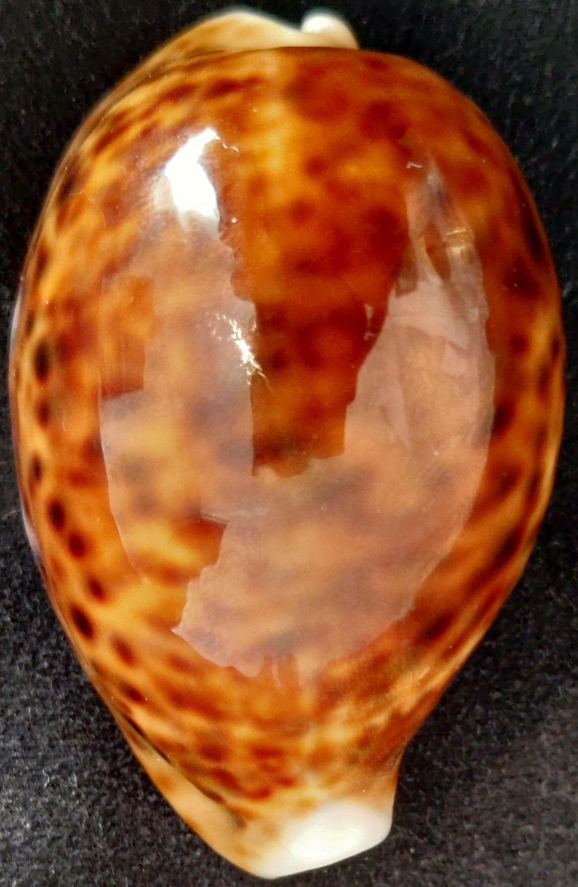 Cypraea Pantherina Funebralis Back